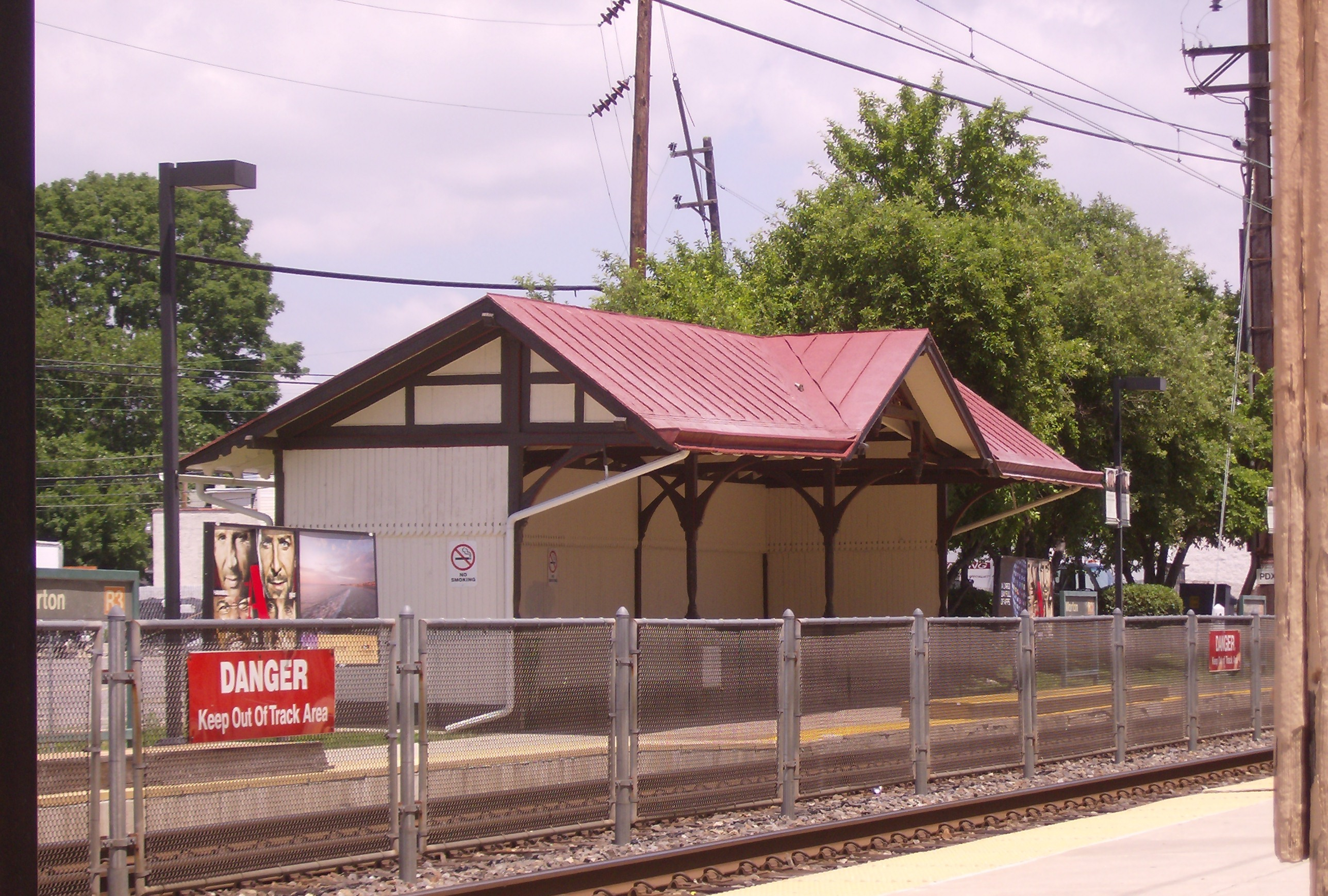 Morton train station